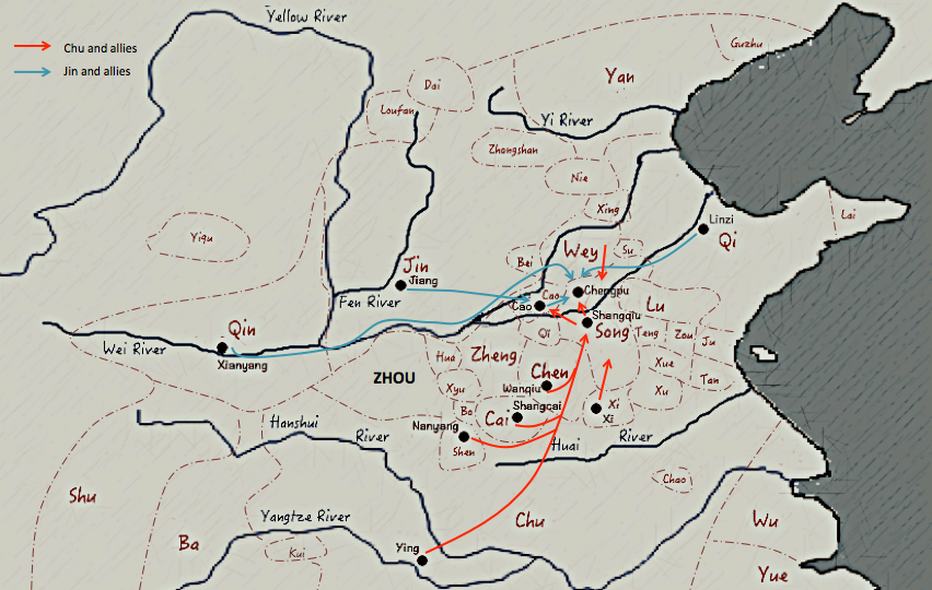 Map of Battle of Chengpu between Jin and Chu 中文（中国大陆）: 春秋时代的晋楚城濮之战示意地图